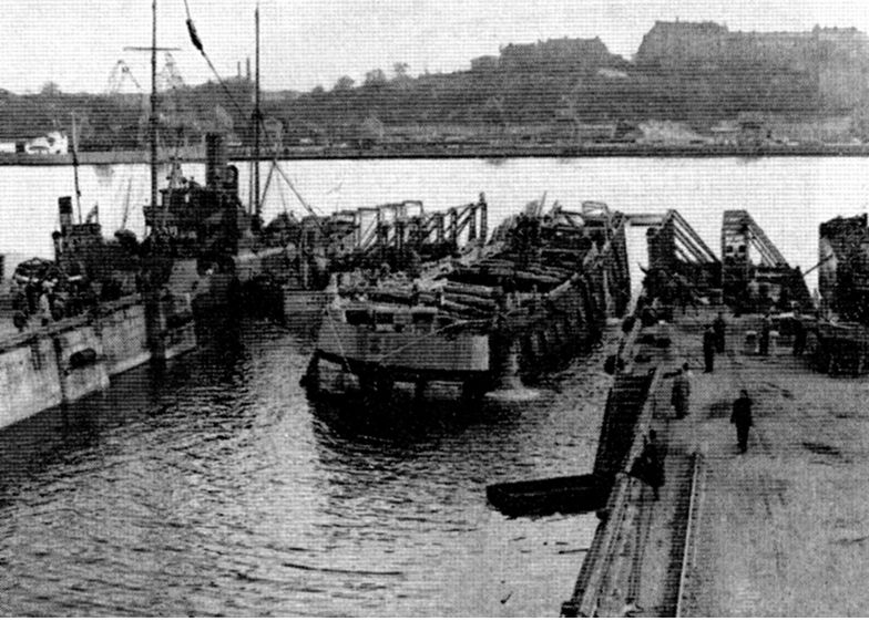 Swedish Warship Vasa (1628) enter drydock in 1961